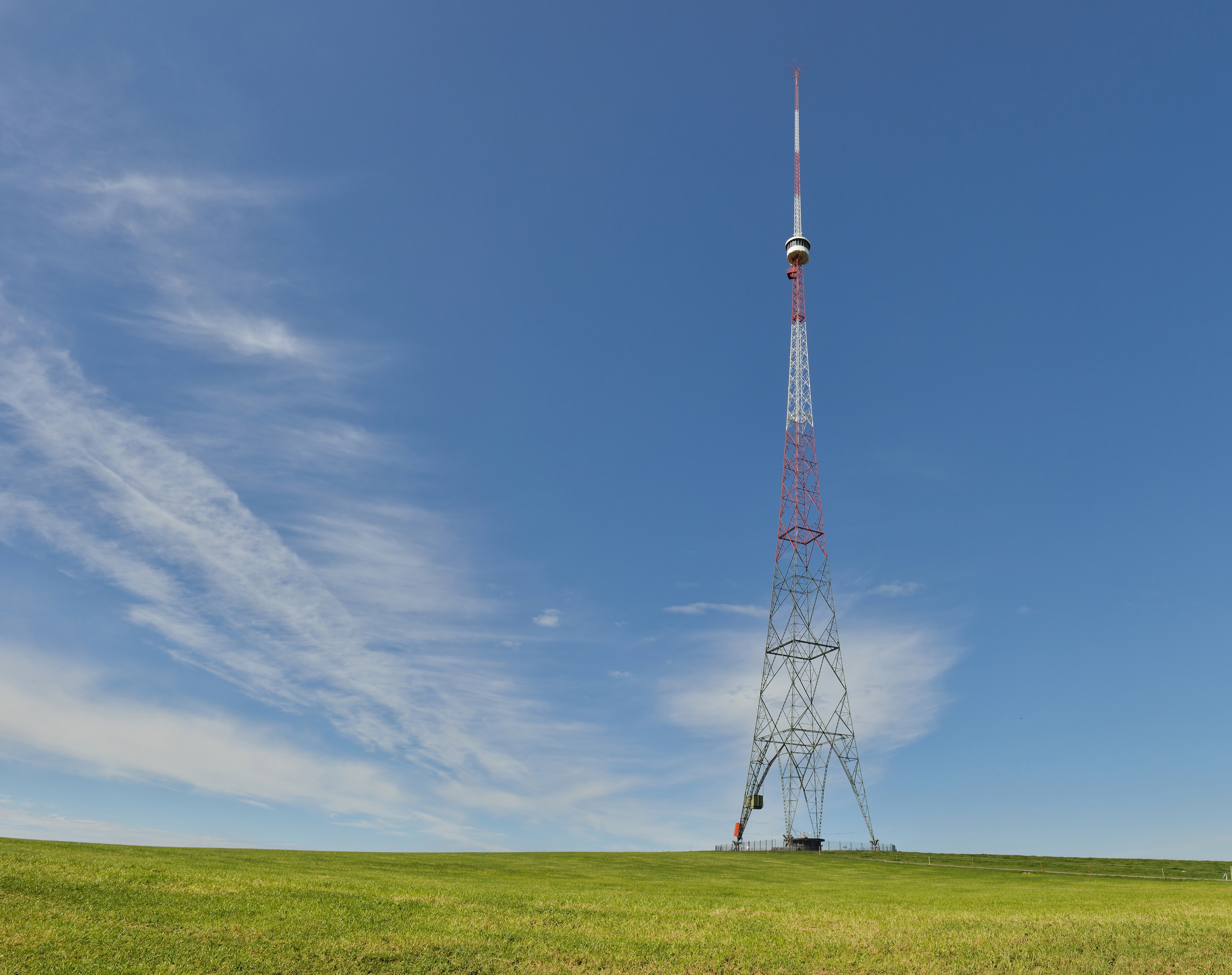 Blosenberg Tower